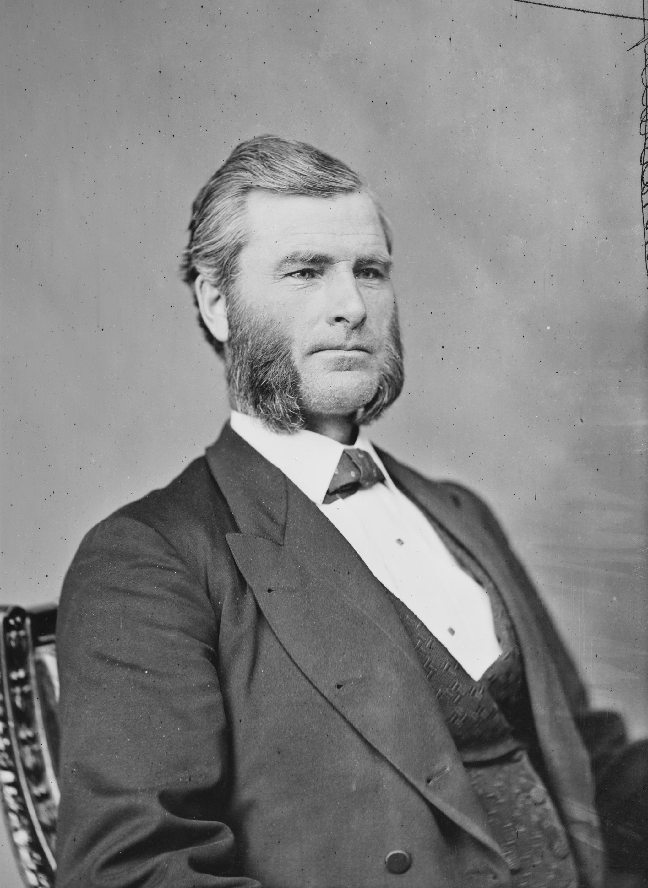 Nathan B. Bradley. Library of Congress description: "Bradley, Hon. Nathan Ball of Mich."